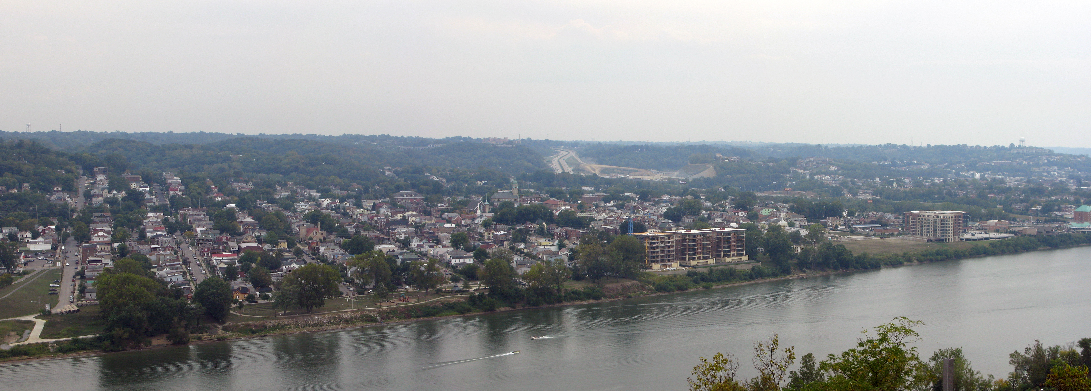 A view of Bellevue, Kentucky from Eden Park in Cincinnati, Ohio.